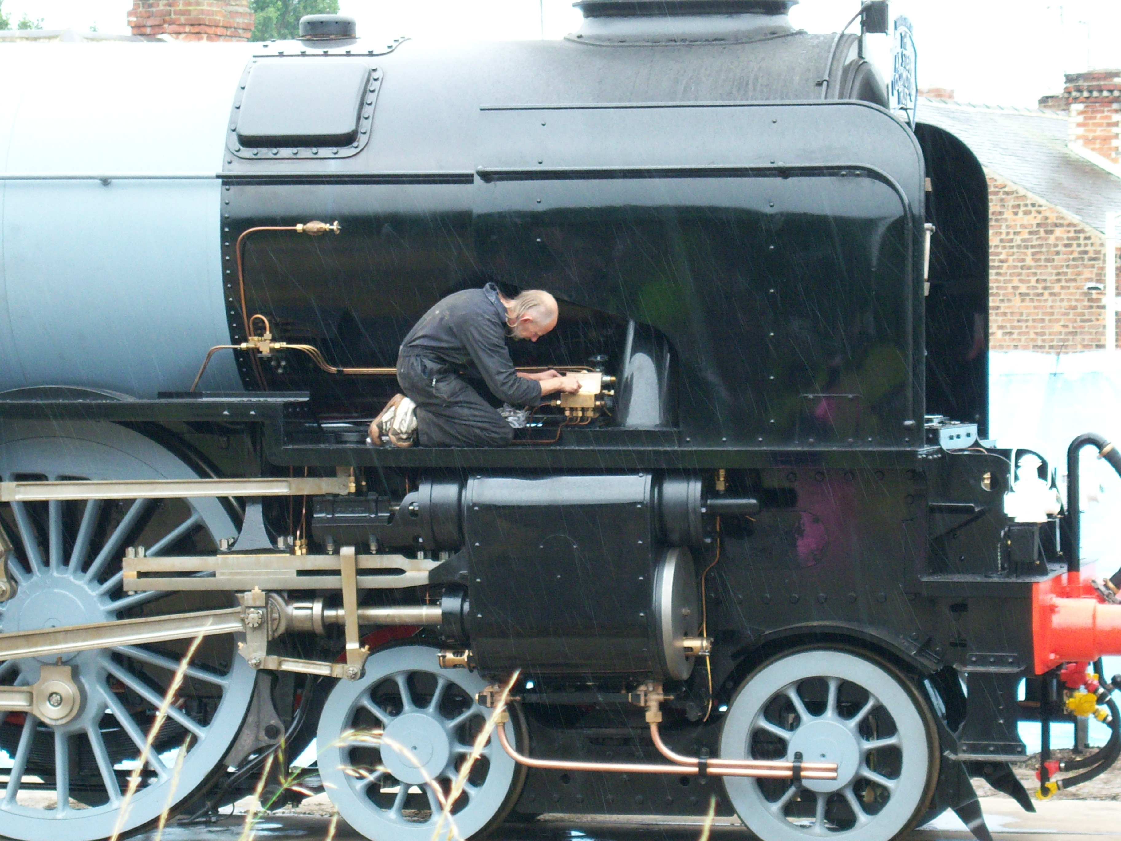 60163 Tornado being prepared